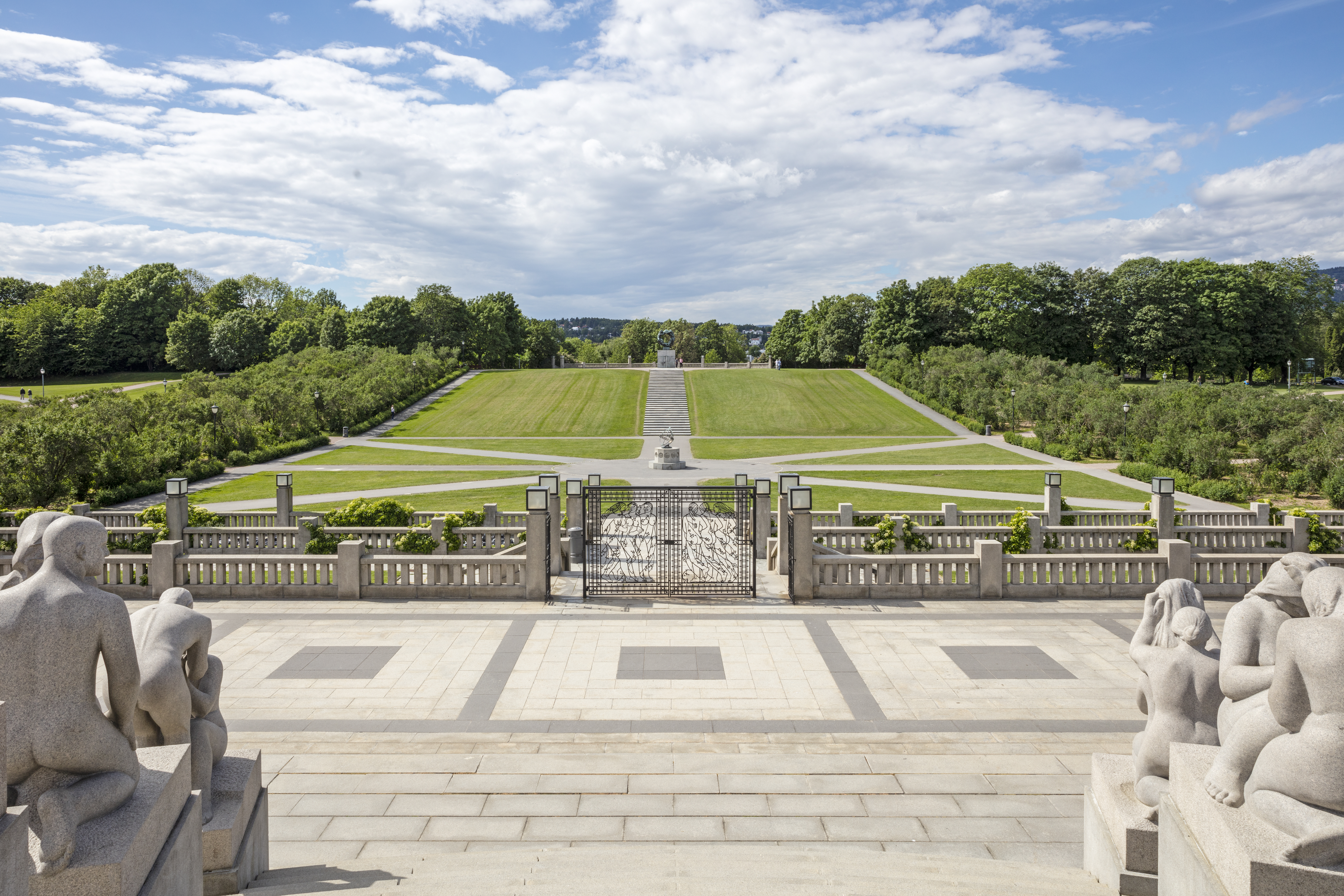 Part of Frogner Park with a small section of the Vigeland installation by sculptor Gustav Vigeland.